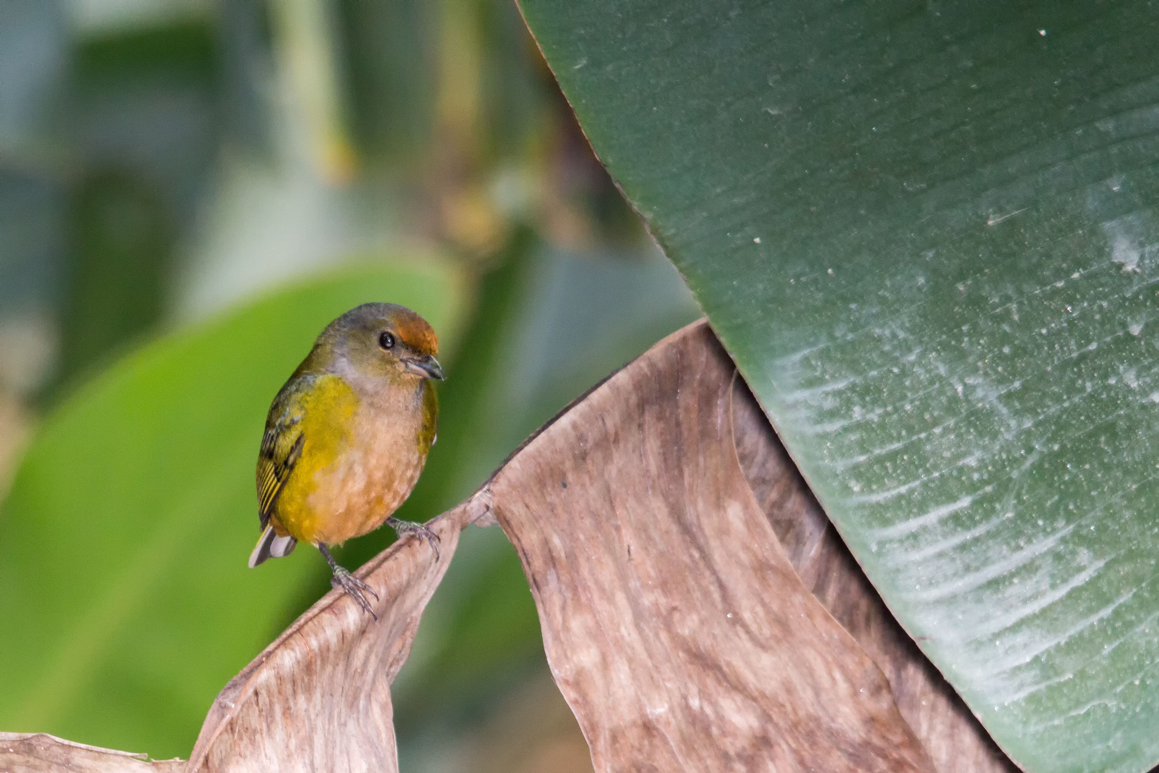 Orange-bellied Euphonia | Curruñatá Azulejo (Euphonia xanthogaster exsul) (♀)